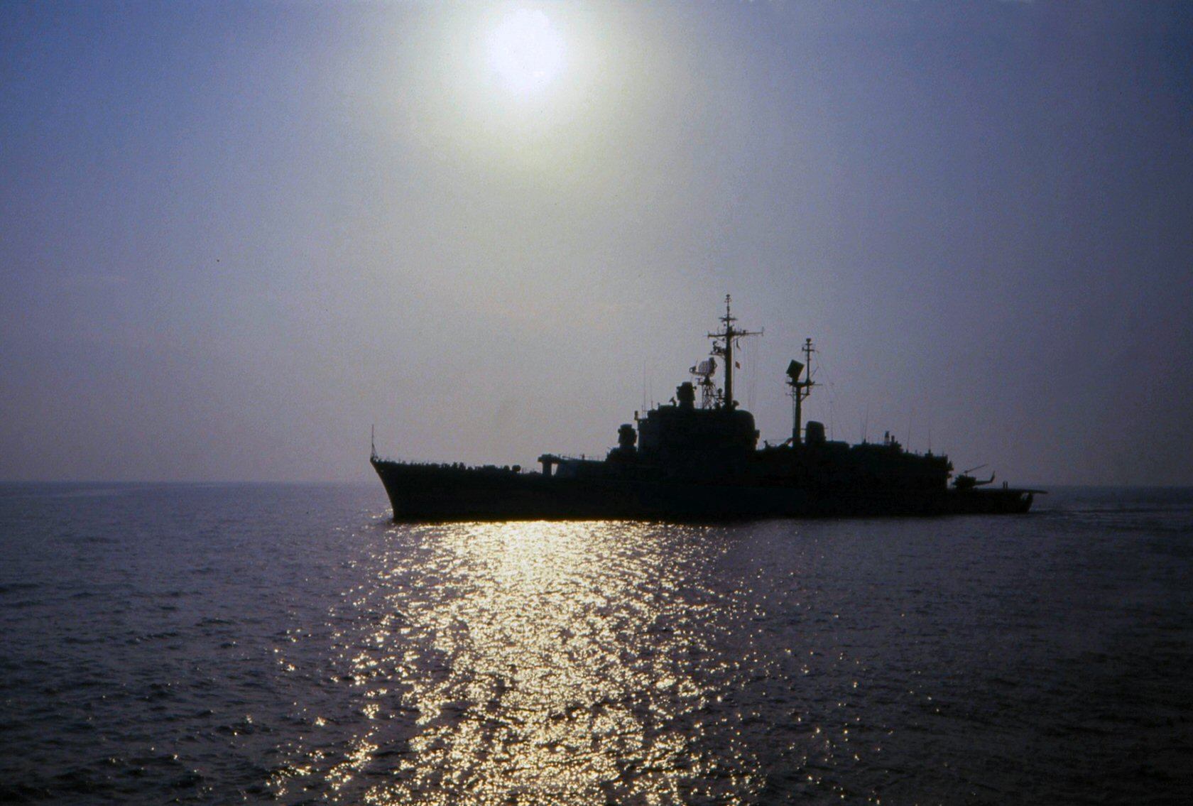 Former Italian missile cruiser Andrea Doria (553) at sea in 1985